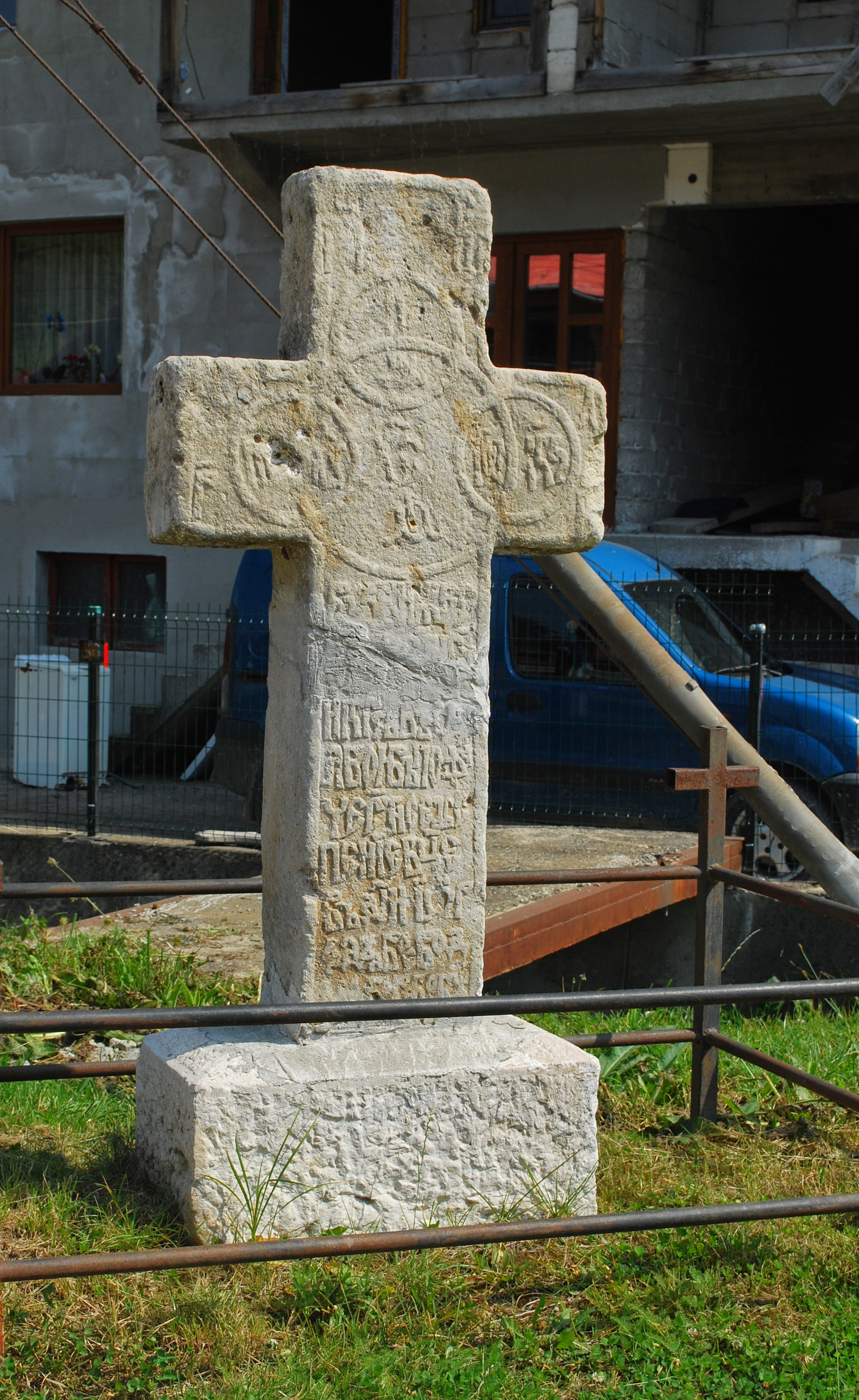 Stone cross of "la Roghina" in Rucăr, Argeș County, RomaniaRomână: Cruce de piatră aflată „la Roghina”, în Rucăr, județul Argeș, România